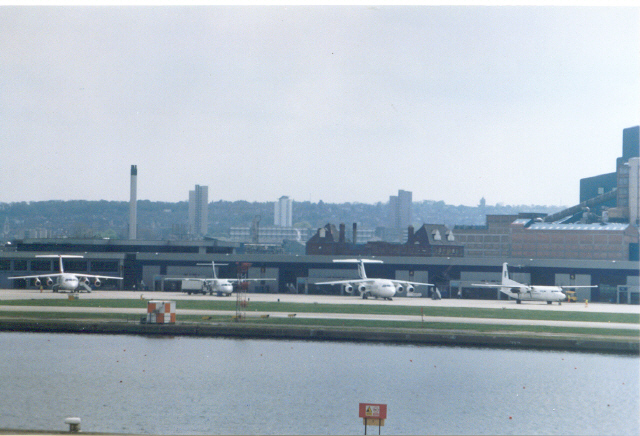 London City Airport. A couple of bae 146's, an ATR 42 (probably), and an F27 in this group shot. Taken from the D.L.R.